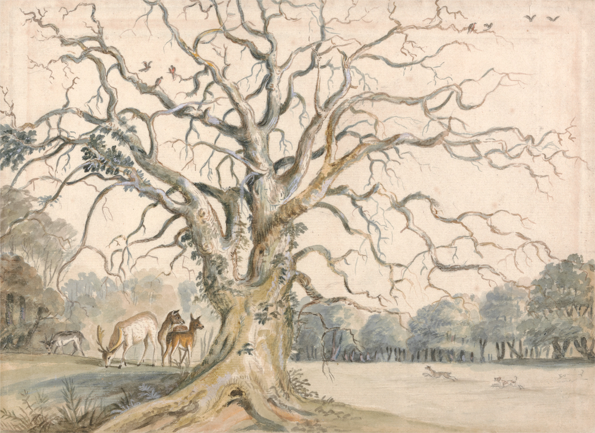 "View of a Park with Deer," by William Byron, 4th Baron Byron (1669-1736). Graphite and watercolour heightened with white. 7 3/4 in. x 10 11/16 in. (19.7 cm x 27.1 cm). Courtesy of the Paul Mellon Collection, Yale Center for British Art, Yale University, New Haven, Connecticut.